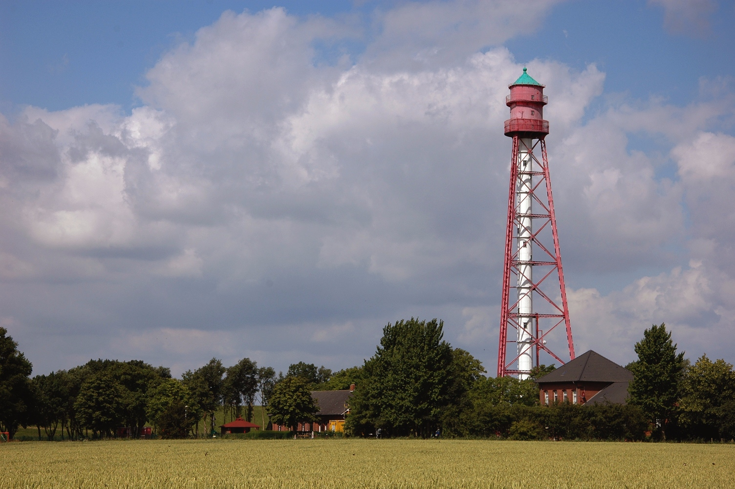 Lighthouse Campen - the highest one at the German shore of the North Sea (65m)